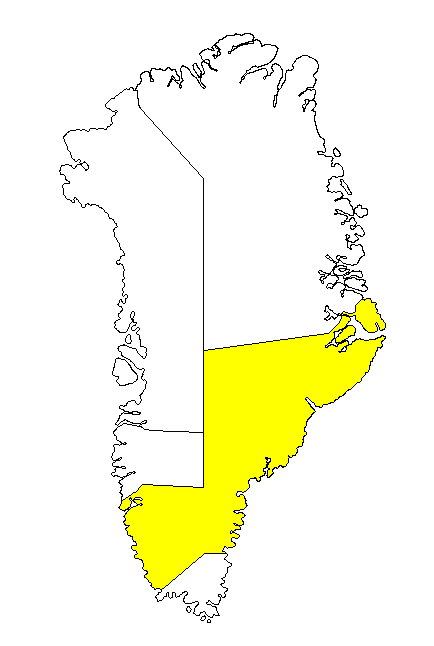 Map showing location of the Kommuneqarfik Sermersooq (Sermersooq municipality) in Greenland